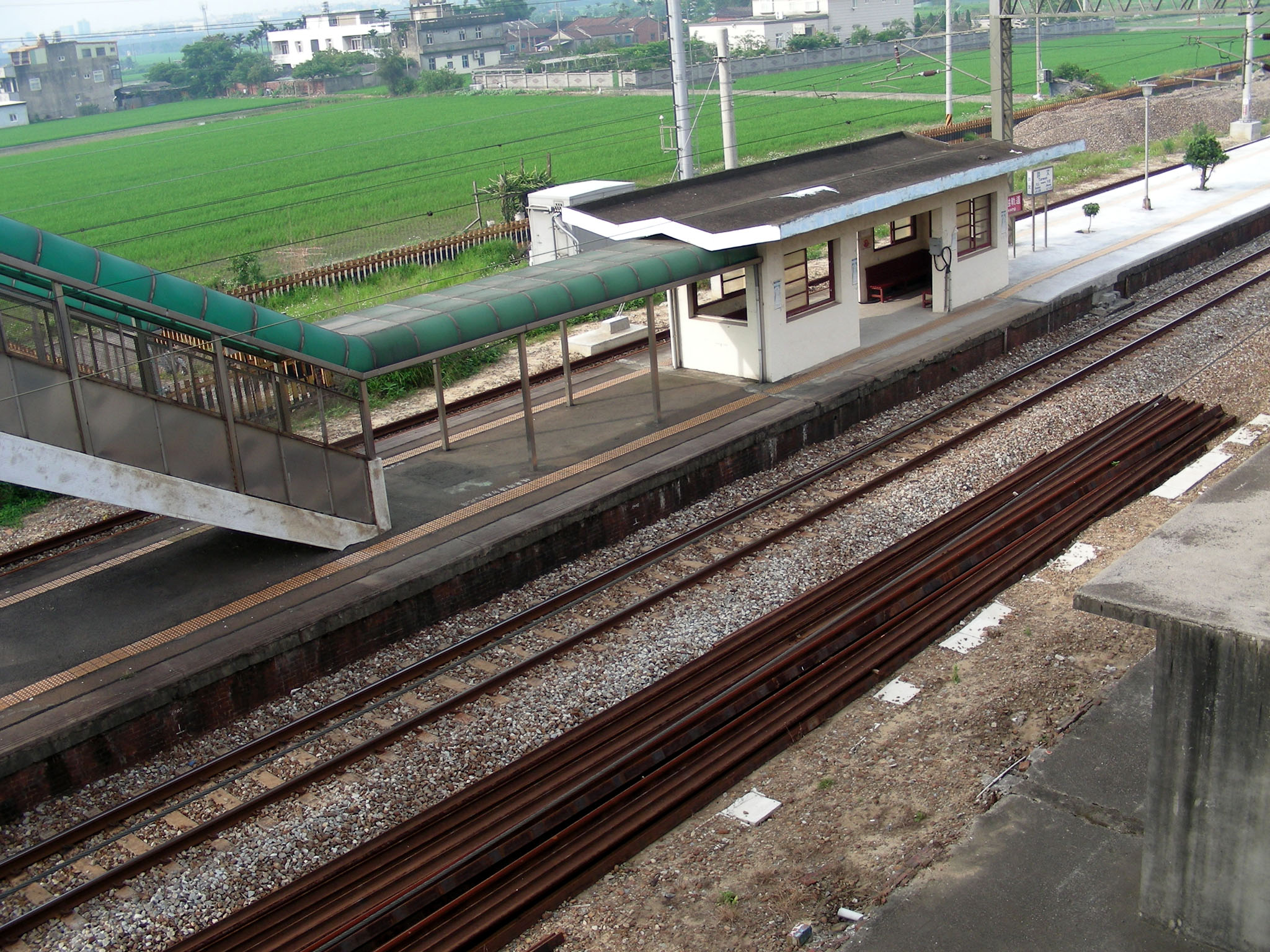 Platform of "Tan Wun" Railway Station, Taiwan